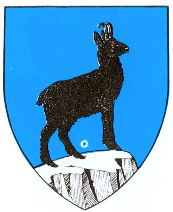 Interwar coat of arms of Prahova County, Kingdom of Romania.